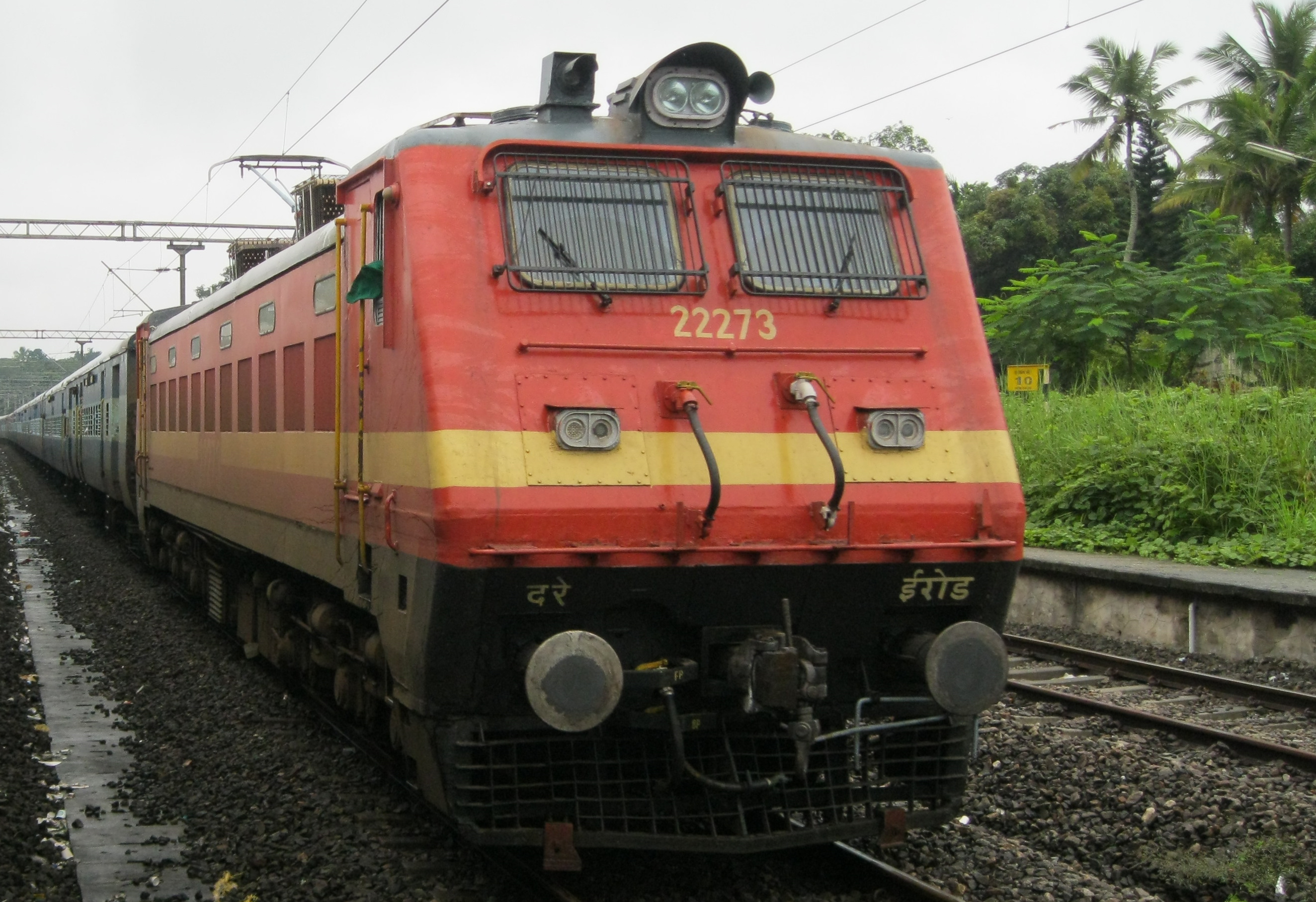 Indian Railways WAP-4 class electric locomotive is currently the most widely used loco for passenger services.